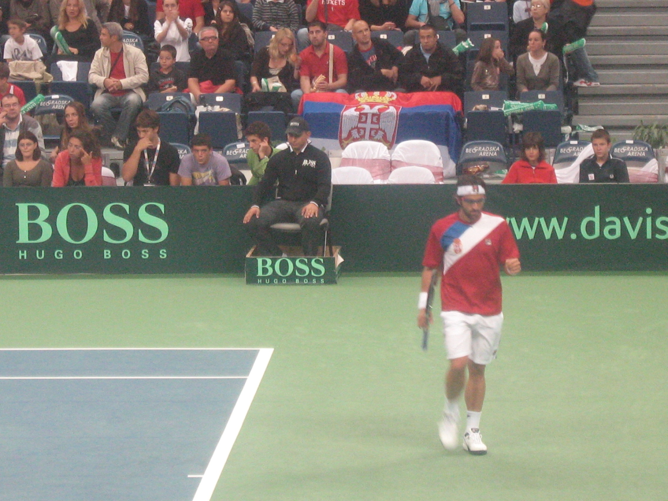 Tipsarevic at the 2010 Davis Cup